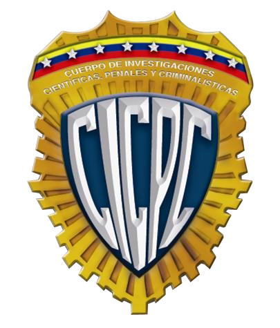 The logo of Body of Scientific, Penal and Criminal Investigation